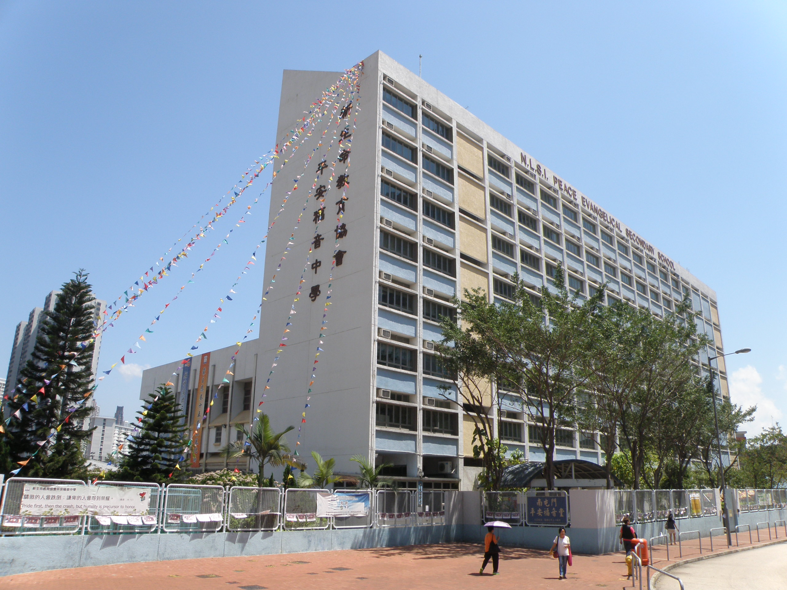 NLSI Peace Evangelical Secondary School in Tuen Mun, Hong Kong.